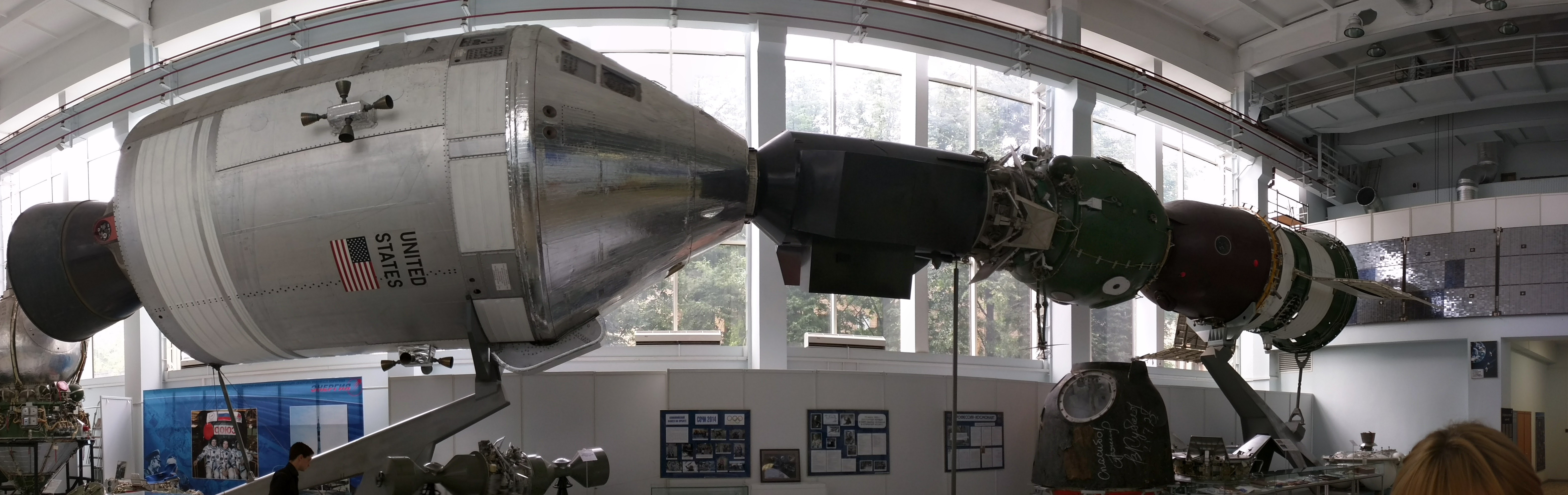 This is the Apollo-Soyuz display at the RKK Energia Museum in Korolyov, Moscow Oblast, Russia. This is an Engineering test model of the Soyuz 19 and a mock-up of the Apollo Command and Service Module donated by NASA. The signed original Soyuz 19 descent module can be seen on the right underneath the Soyuz engineering model